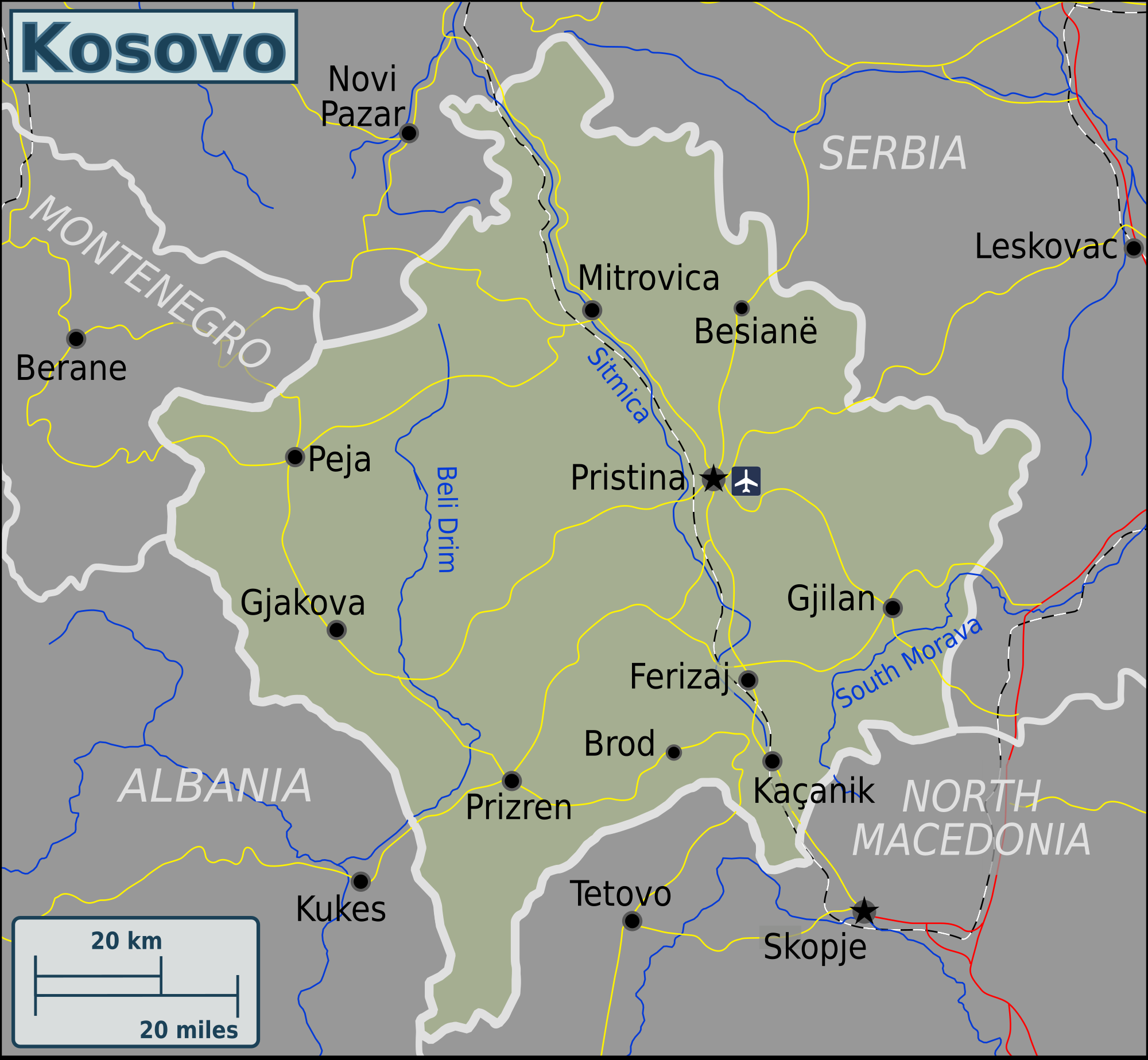 Map of Kosovo for use on Wikivoyage, English version